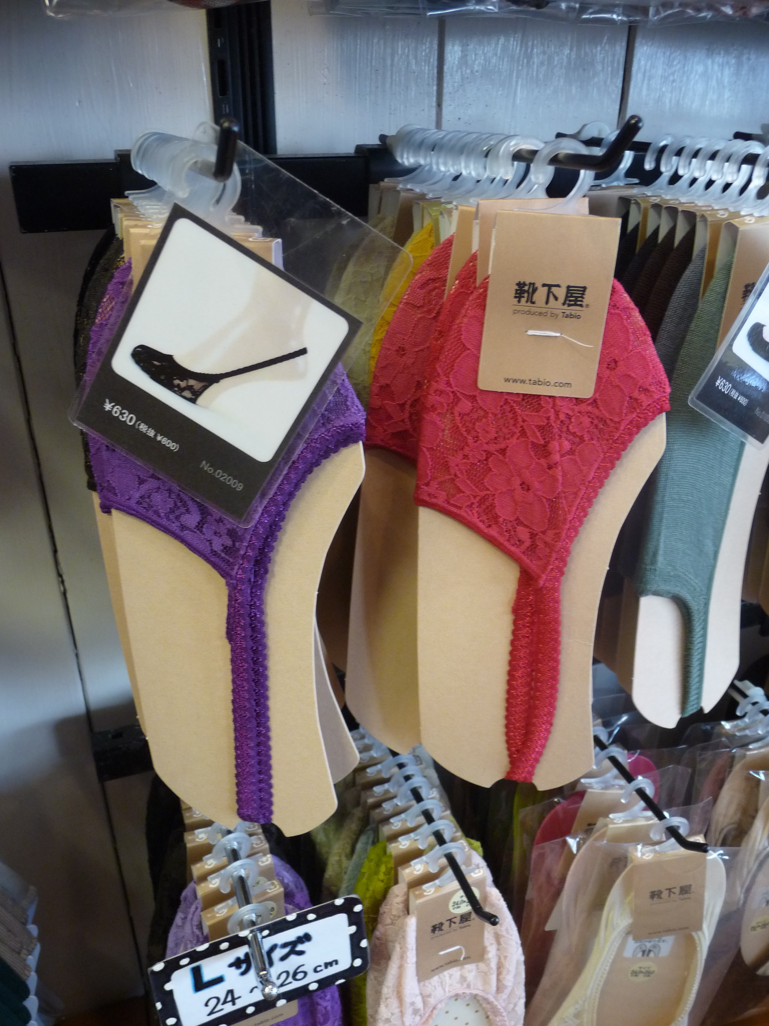 Creepy, fetishy toe stockings